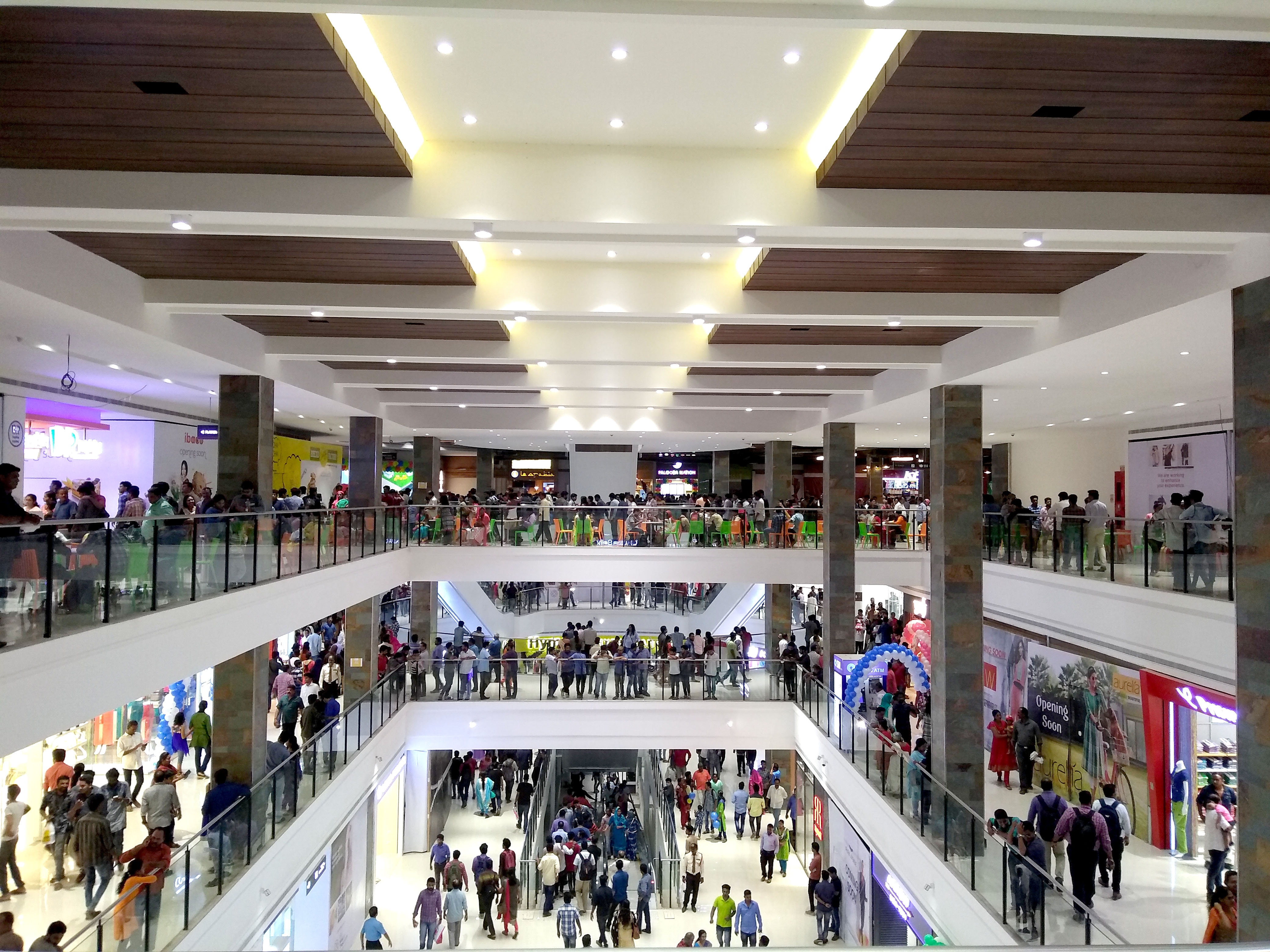 Mall of Travancore in Thiruvananthapuram city, Kerala, India.